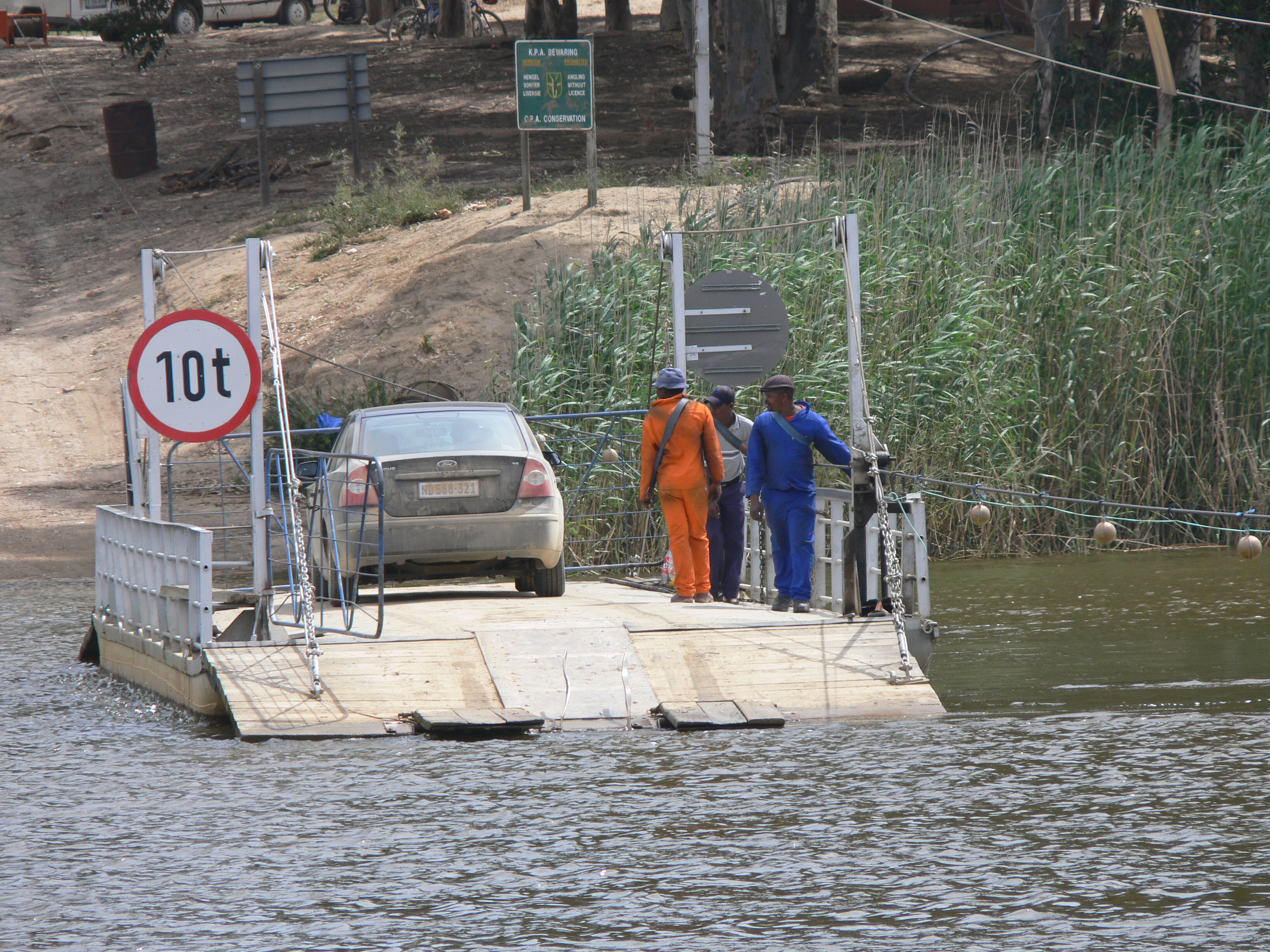 cable ferry (human powered by someone on the boat), Breede River, Malgas, Western Cape, South Africa